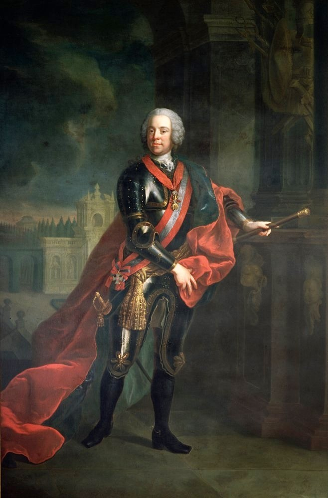 Count Leopold Joseph von Daun (1705-66), Fieldmarshall and Austrian Commander-in-Chief during the Seven Years War